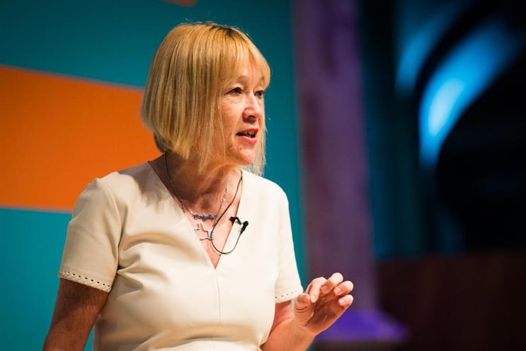 Cindy Gallop at the Horasis Global China Business Meeting 2019